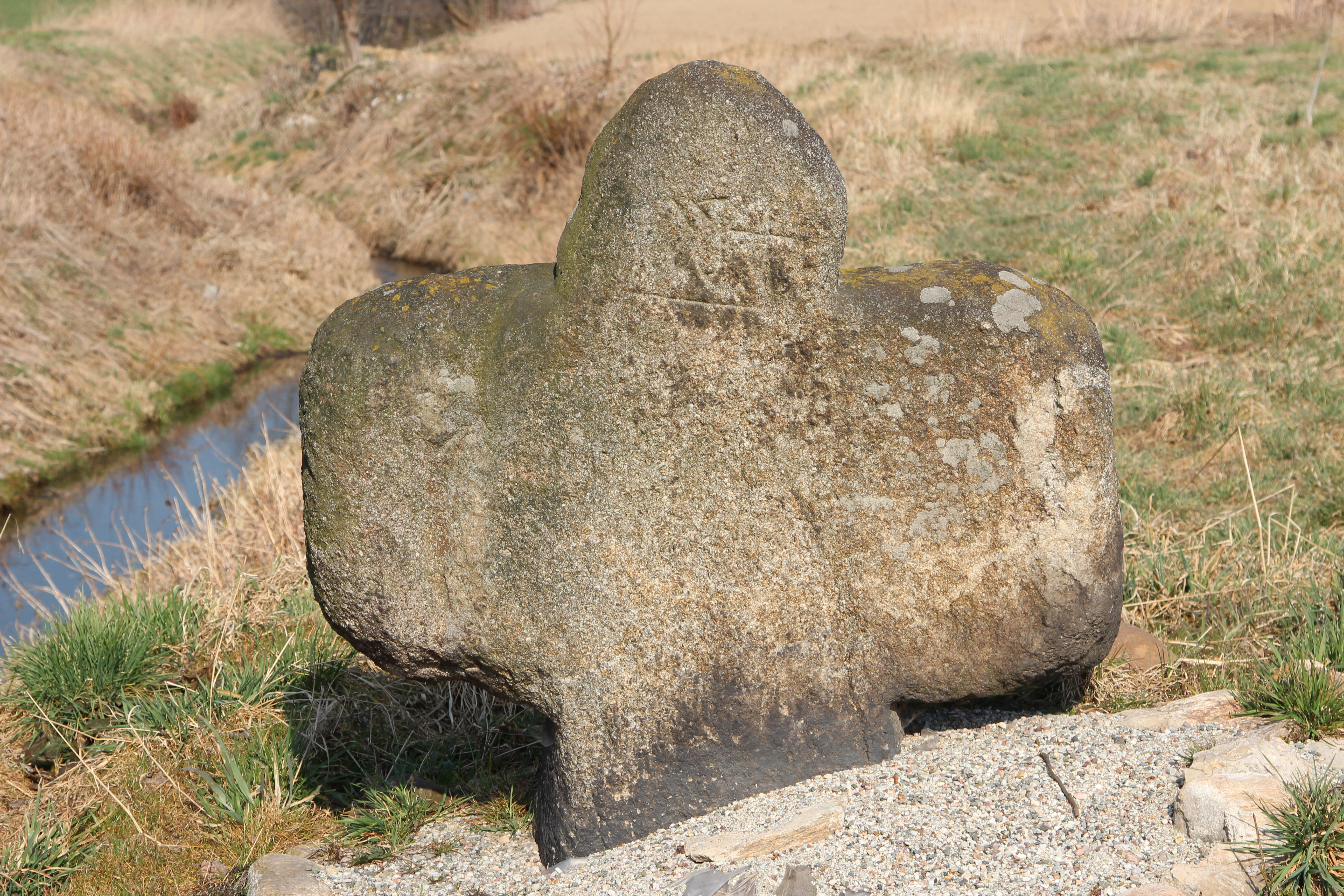 Stone cross in Unikowice